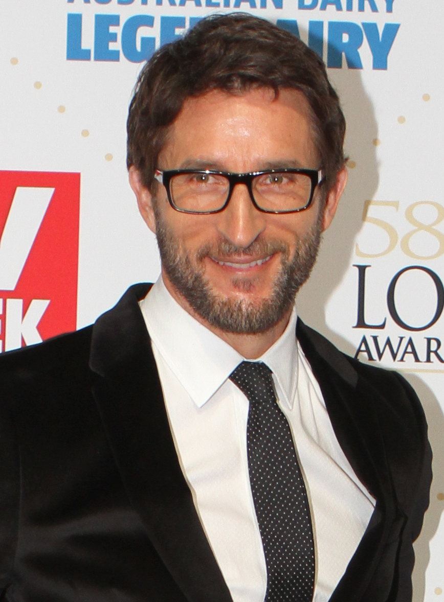 Anthony Lapalia arrives at the TV Week Logie Awards 58th Annual Crown Palladium